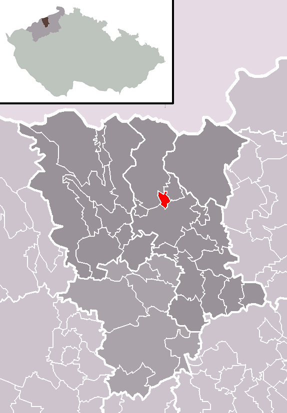 Location of Novosedlice municipality within Teplice District and administrative area of Teplice as a Municipality with Extended Competence.